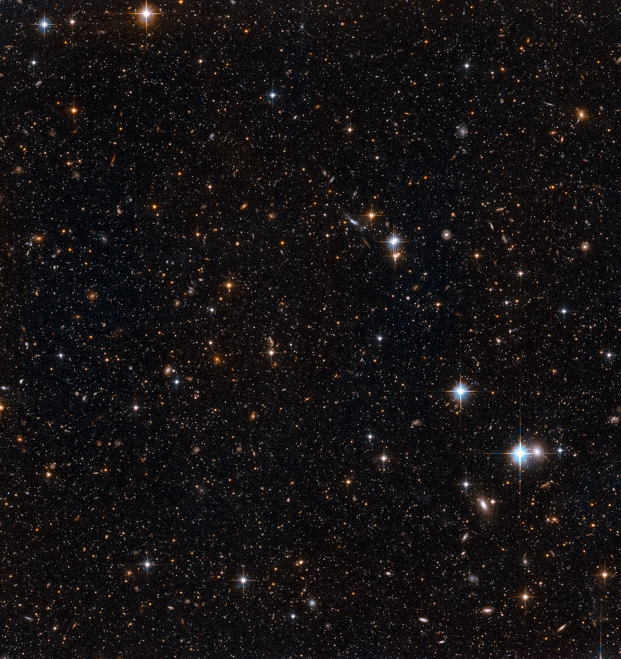 This image shows NASA/ESA Hubble Space Telescope images of a small part of the disc of the Andromeda Galaxy, the closest spiral galaxy to the Milky Way. Hubble’s position above the distorting effect of the atmosphere, combined with the galaxy’s relative proximity, means that the galaxy can be resolved into individual stars, rather than the cloudy white wisps usually seen in observations of galaxies. A galaxy’s disc is the area made up of its spiral arms, and the darker areas between them. After the galaxy’s central bulge, this is the densest part of a galaxy. However, these observations are made near the edge, where the star fields are noticeably less crowded. This lets us see glimpses through the galaxy into the distant background, where the more diffuse blobs of light are actually faraway galaxies. These observations were made in order to observe a wide variety of stars in Andromeda, ranging from faint main sequence stars like our own Sun, to the much brighter RR Lyrae stars, which are a type of variable star. With these measurements, astronomers can determine the chemistry and ages of the stars in each part of the Andromeda Galaxy.